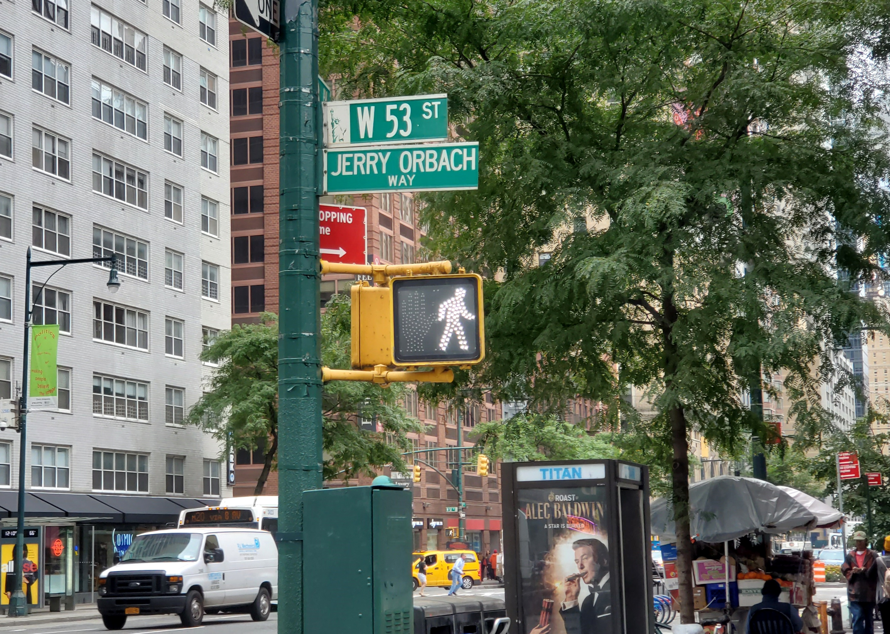 53rd Street at 8th Avenue in New York City is named Jerry Orbach Way in honor of Jerry Orbach.